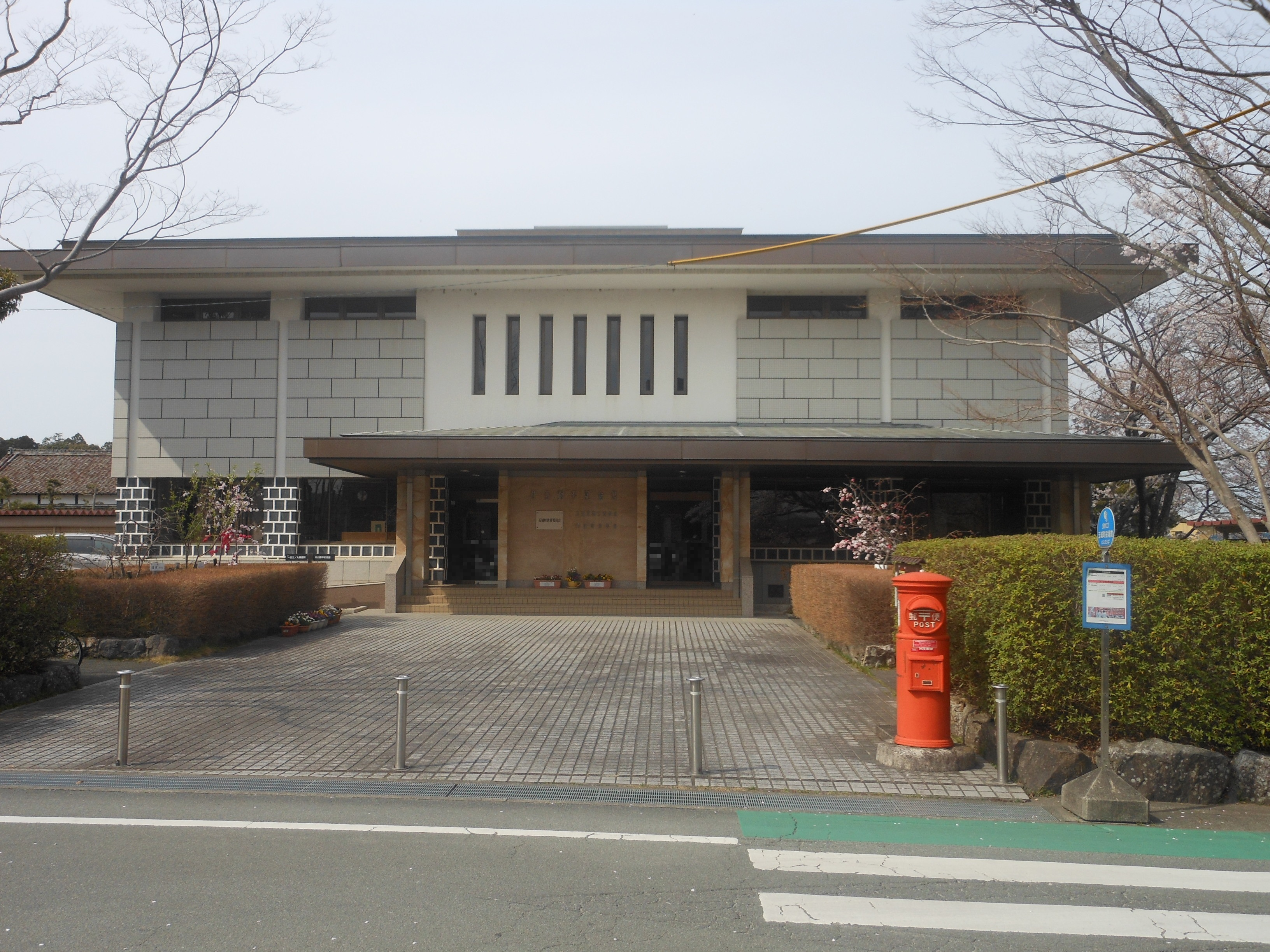 This is Murayama Ryohei Memorial in Tamaki, Mie, Japan.